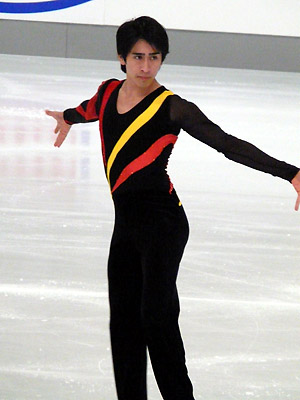 Luis Hernández during his long program at the 2007 Nebelhorn Trophy.